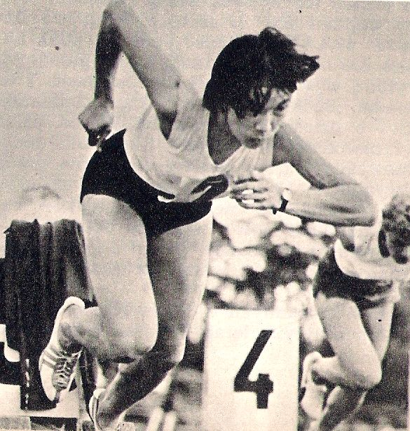 Elżbieta Szyroka